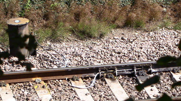 Rail track lubricator near Belper railway station, England on a difficult high-speed reverse curve.